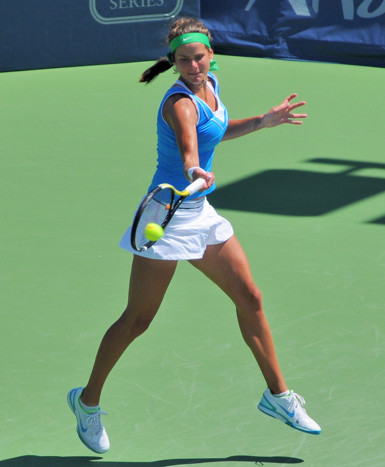 Julia Goerges Mercury Insurance Tennis Open 2011